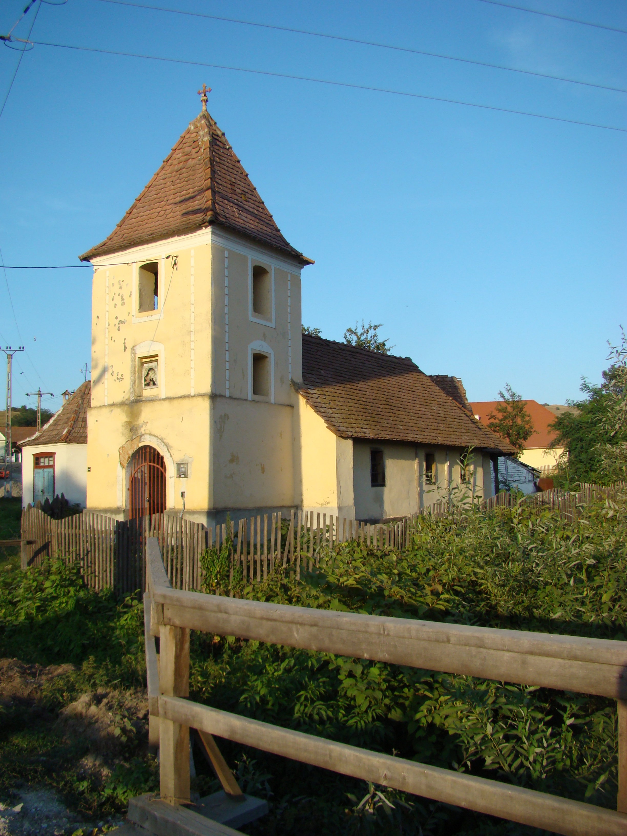 The wooden church in Săsăuș, Sibiu county, Romania